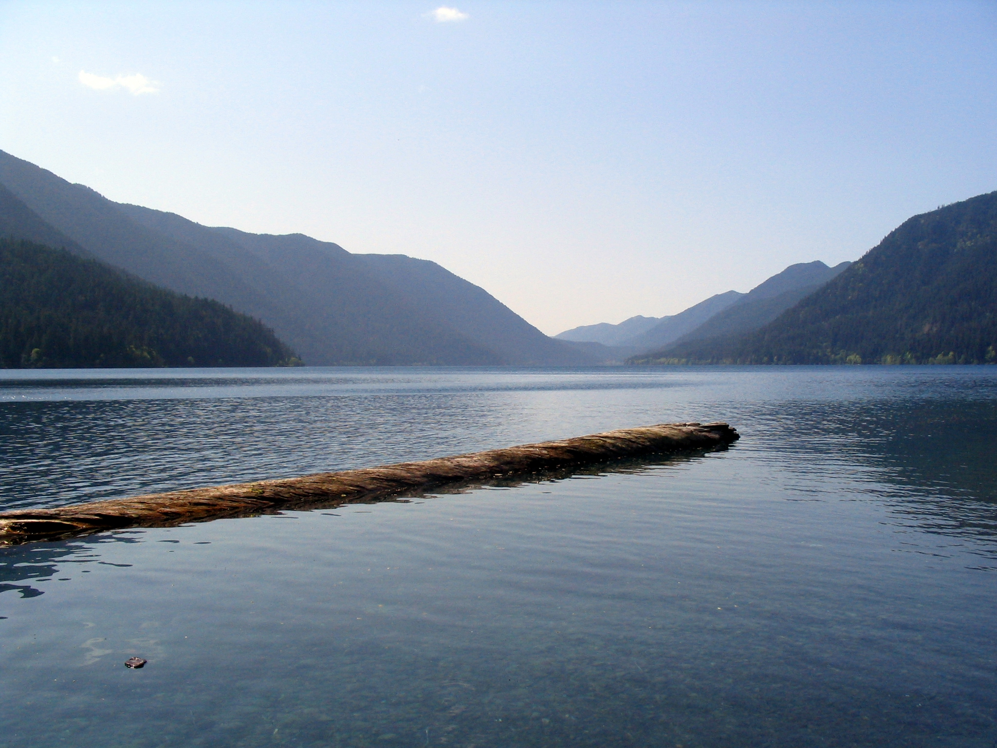 Lake Crescent in the Olympic National Park, near Port Angeles, Washington